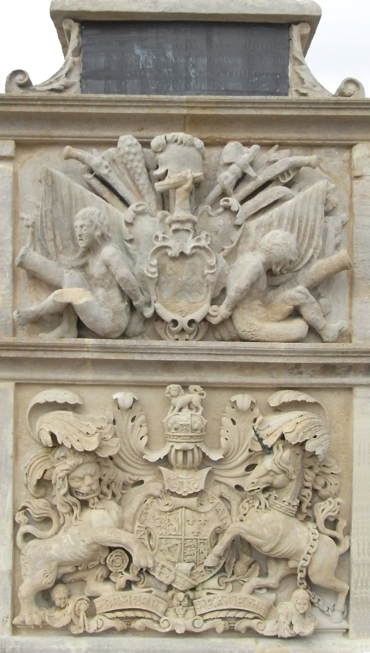 Front panel below statue of Queen Anne, Queen Anne's Walk, Barnstaple, Devon. Given in 1708 by Robert Rolle (d.1710) of Stevenstone. Lower panel shows the Royal Arms of Queen Anne; above which is an escutcheon with the arms of Rolle above which the crest of Rolle (A cubit arm erect vested or charged with a fess indented double cotised azure in the hand a roll of parchment). Behind is an antique trophy of arms, on either side of which are symbolic representations, in the antique Greek and Roman dishevelled style, of captured French soldiers from the Battle of Blenheim (1704). Such groupings of two adorsed captured soldiers survive on many ancient Greek and Roman coins. A similar grouping is visible on the roofline of Blenheim Palace. Above all is a tablet with dedicatory text: Anna, Intemeratae fidei testimonium Roberti Rolle de Stephenstone in agro Devoniensi Armigeri MDCCVIII ("Anne, a testament of the undefiled faith of Robert Rolle, Esquire, of Stevenstone in the land of Devonshire, 1708").